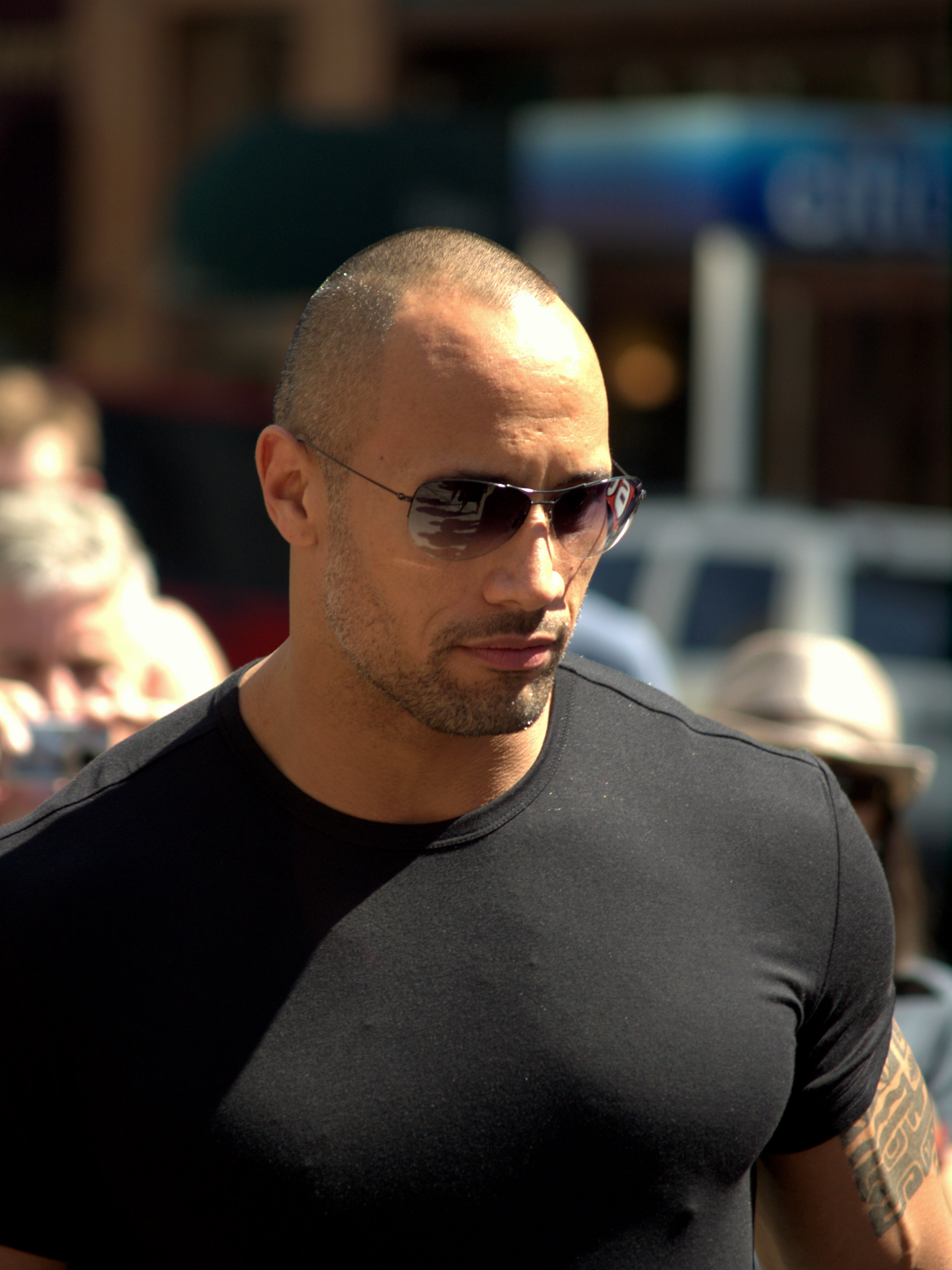 Dwayne Johnson at the 2009 Tribeca Film Festival. Photographer's blog post about this photo.